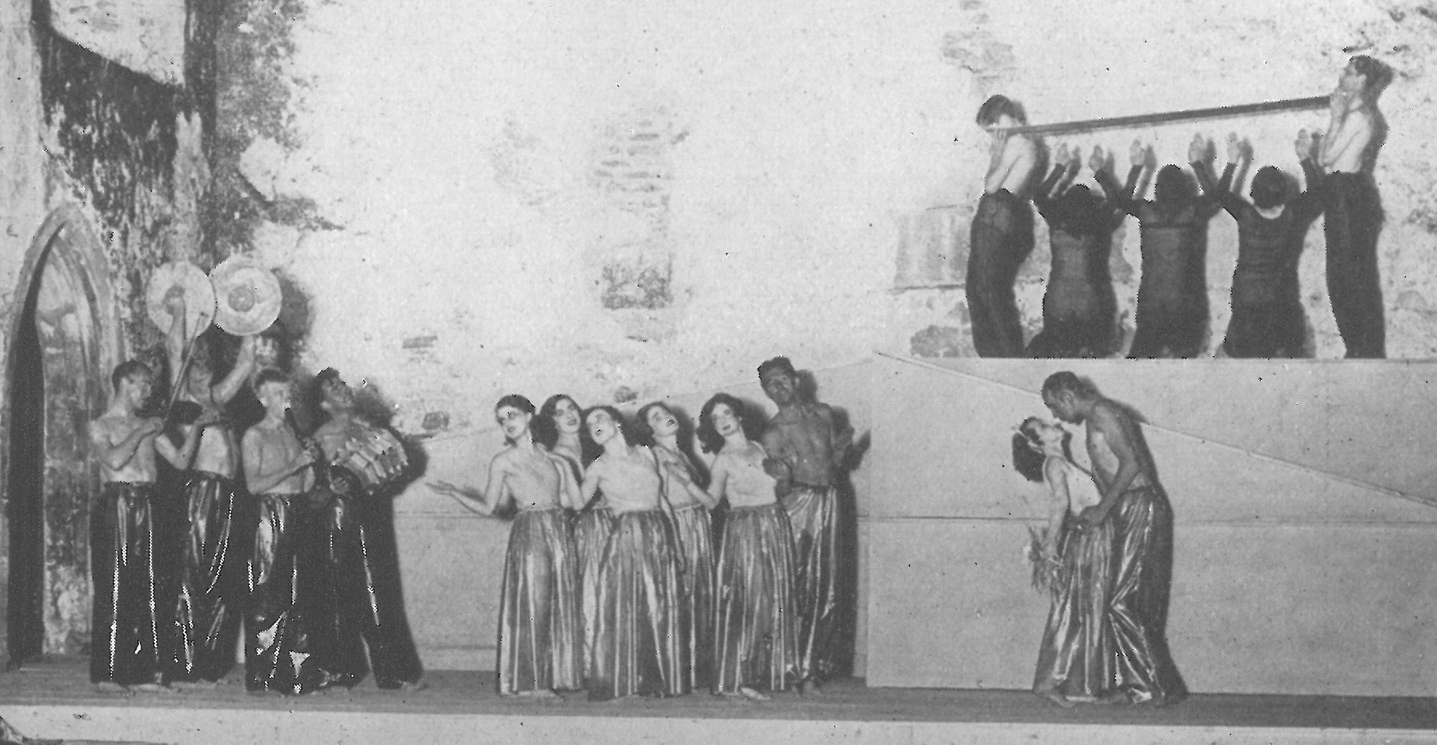 Dance mime choreographed by Margaret Barr while she was head of the School of Dance Mime at Dartington Hall School, Totnes, Devon. Performance in 1931.